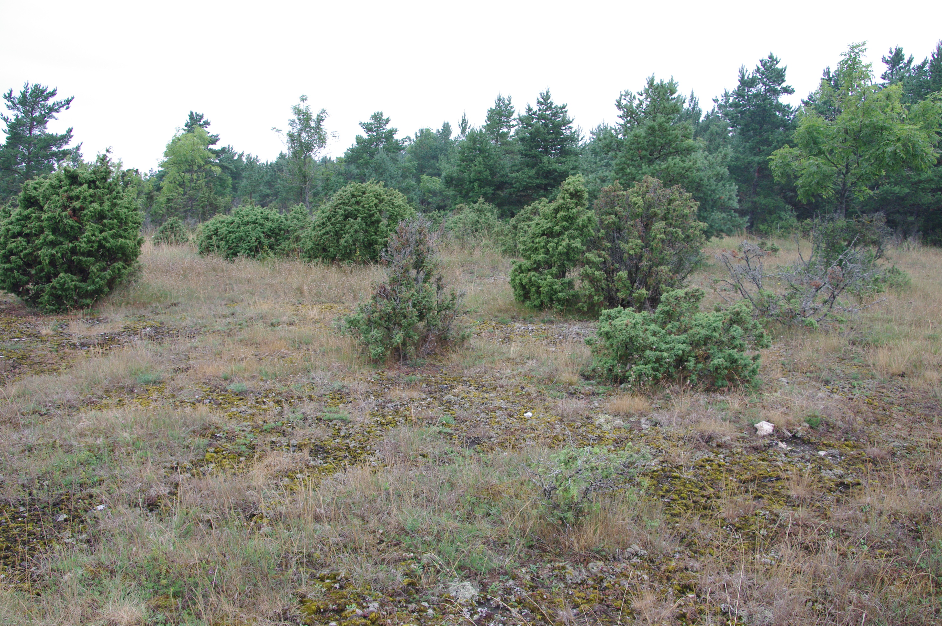 Atla alvar grassland in Saaremaa, Estonia